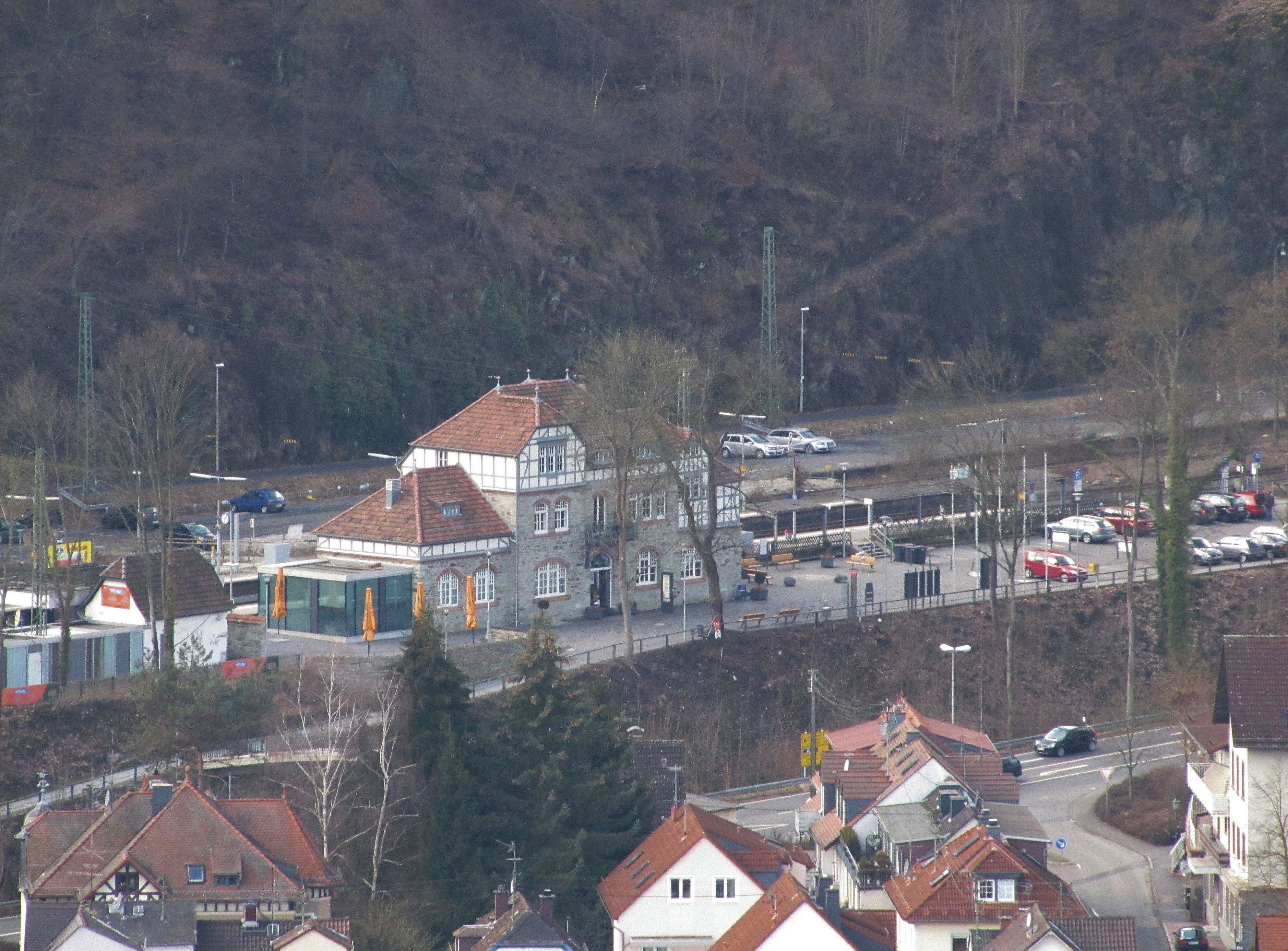 "Eppstein", town in the Main-Taunus-Kreis, Hesse, Germany